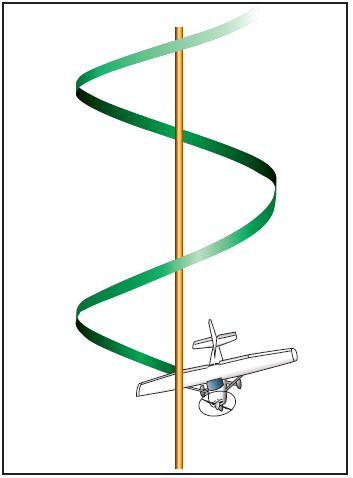 This is the work of a Government Agency. Although the FAA sells this book for about $17USD it is available, free of charge, at the URL above. The Federal Aviation Administration holds no copyright on this publication.